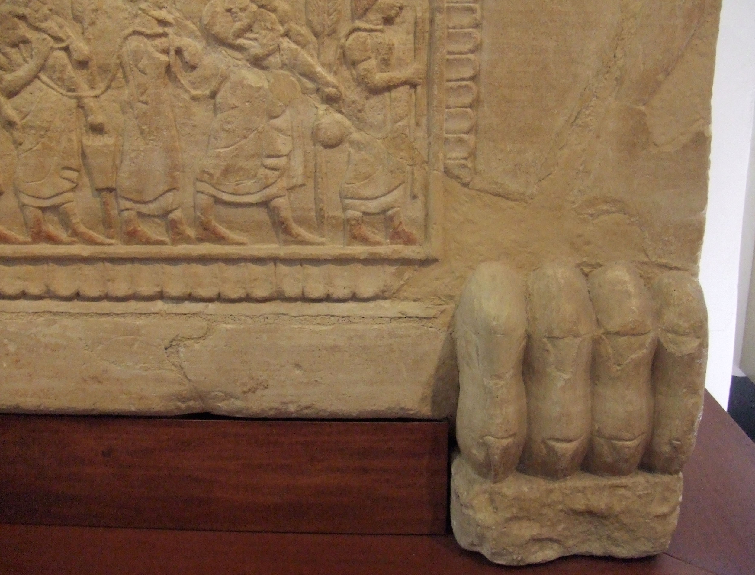 Relief-decorated sarcophagus manufactured in a cippi and ash urns workshop in Chiusi, probably commissioned for a warrior chief. On the front, the return from a raid for cattle and prisoners. On the short sides, banqueters.